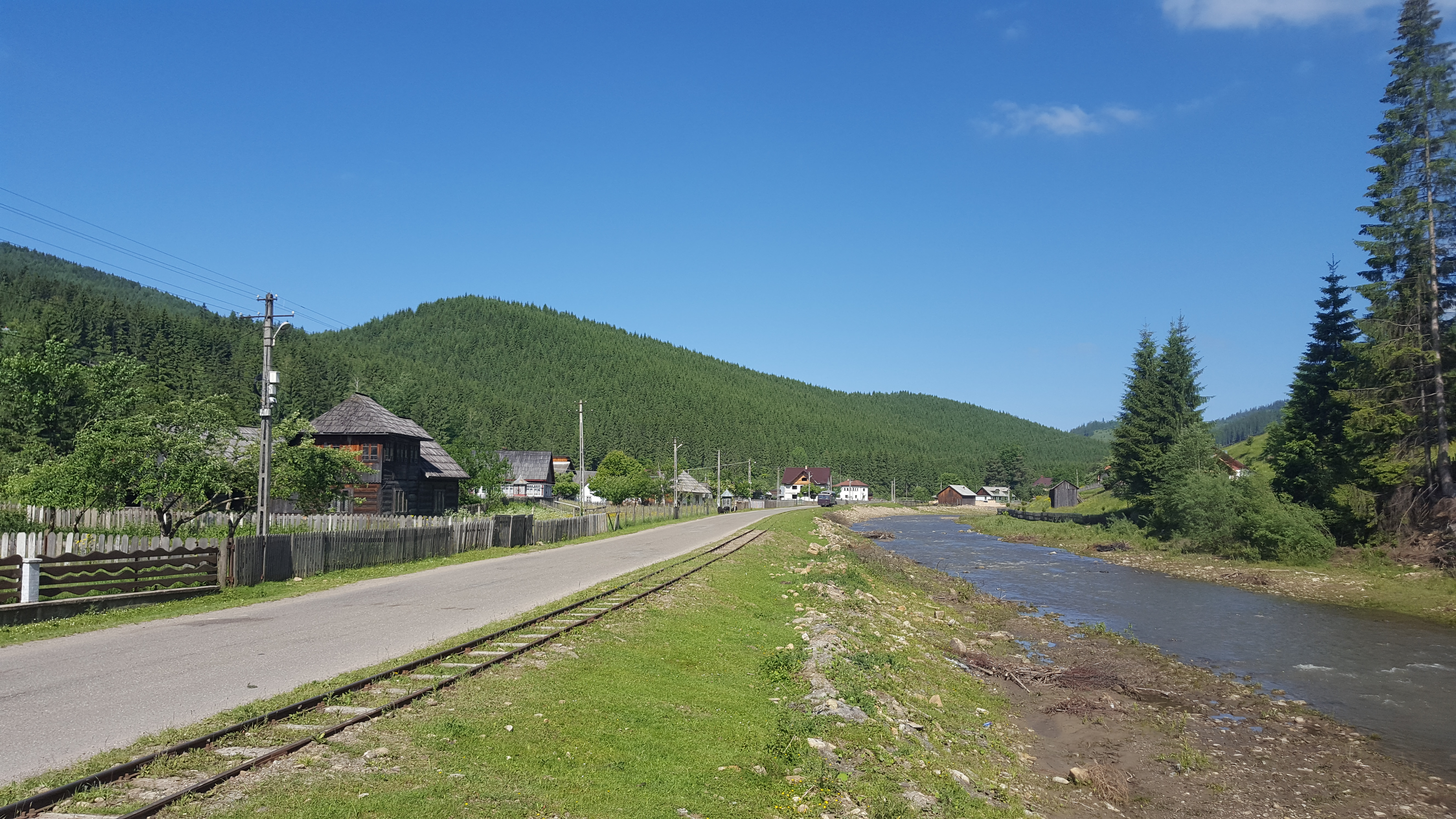 A road, a tourist railway (Mocanita Hutulca) and the Moldovita river passing through Argel, Romania